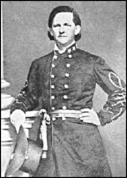 General Thomas Reade Rootes Cobb, CSA